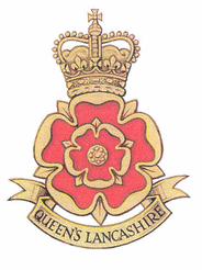 Cap badge of Queen's Lancashire Regiment